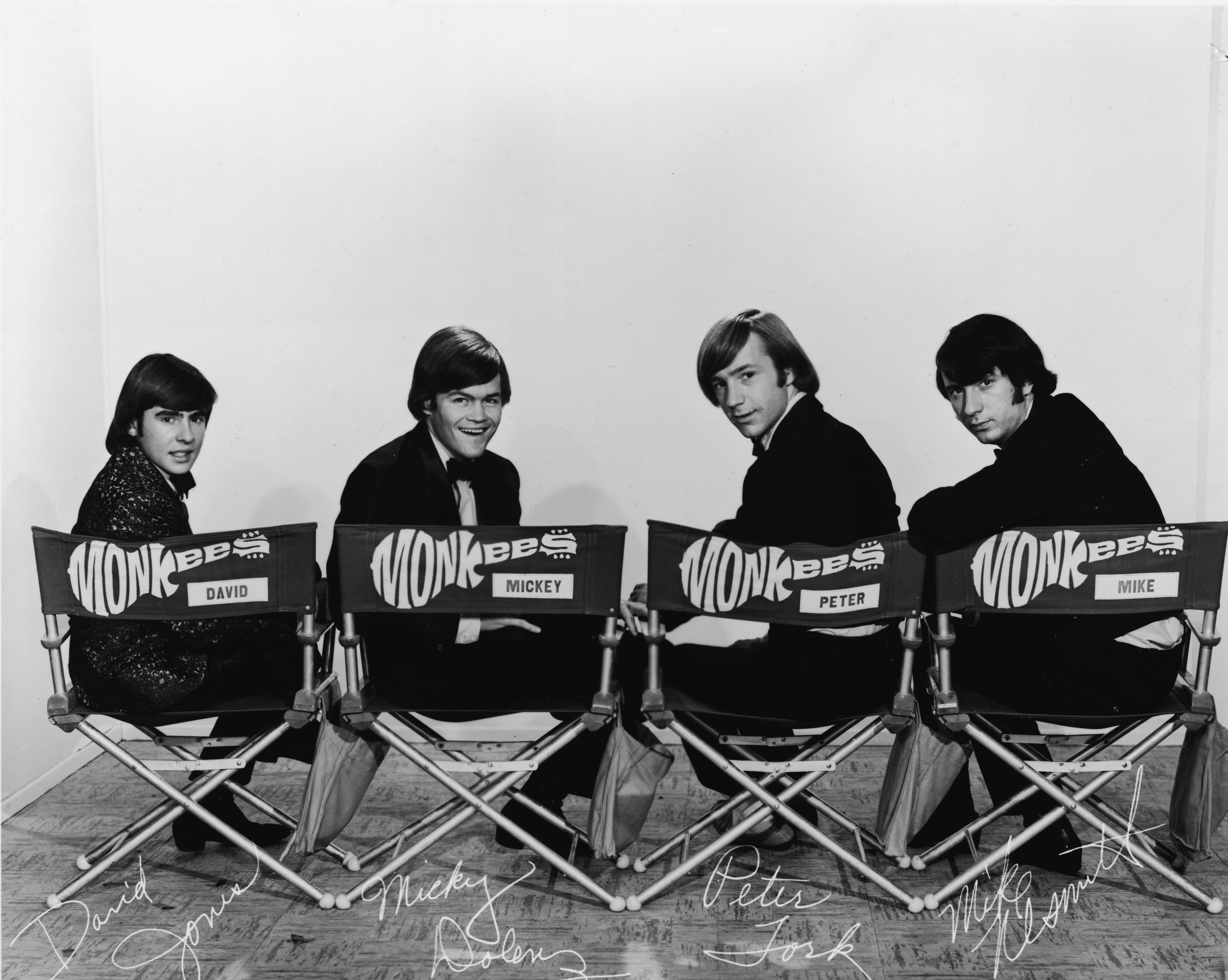 Photo of The Monkees from a 1967 trade ad.